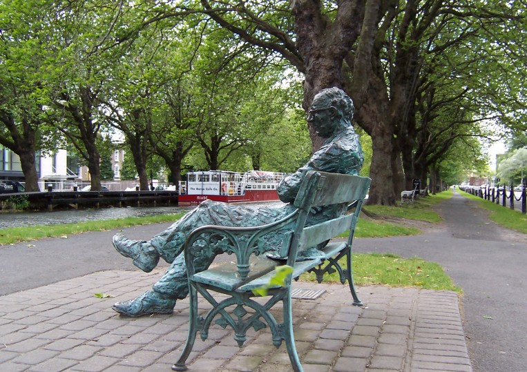 Patrick Kavanagh statue along the Grand Canal in Dublin